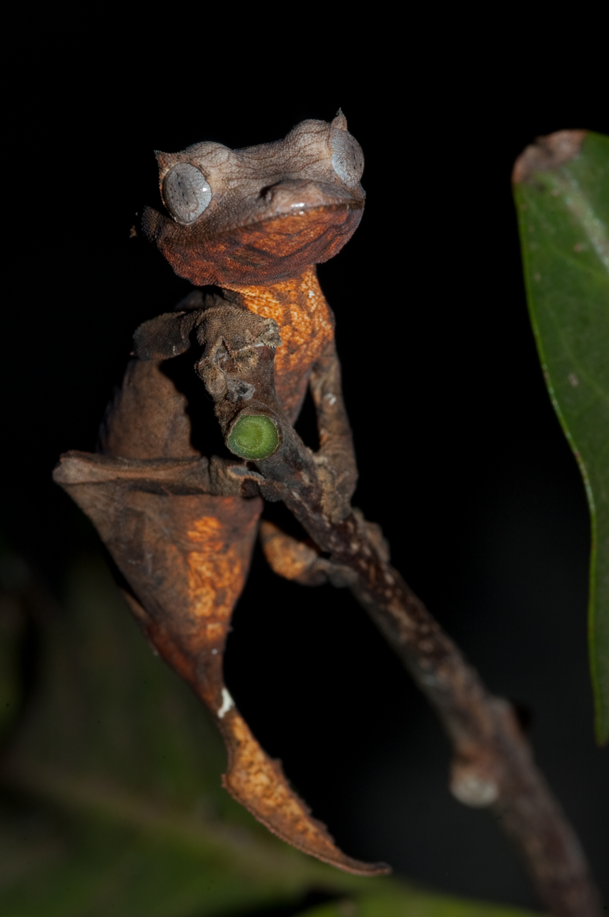 Uroplatus ebenaui. A Madagascan leaf tailed gecko found in the western dry deciduous forests.